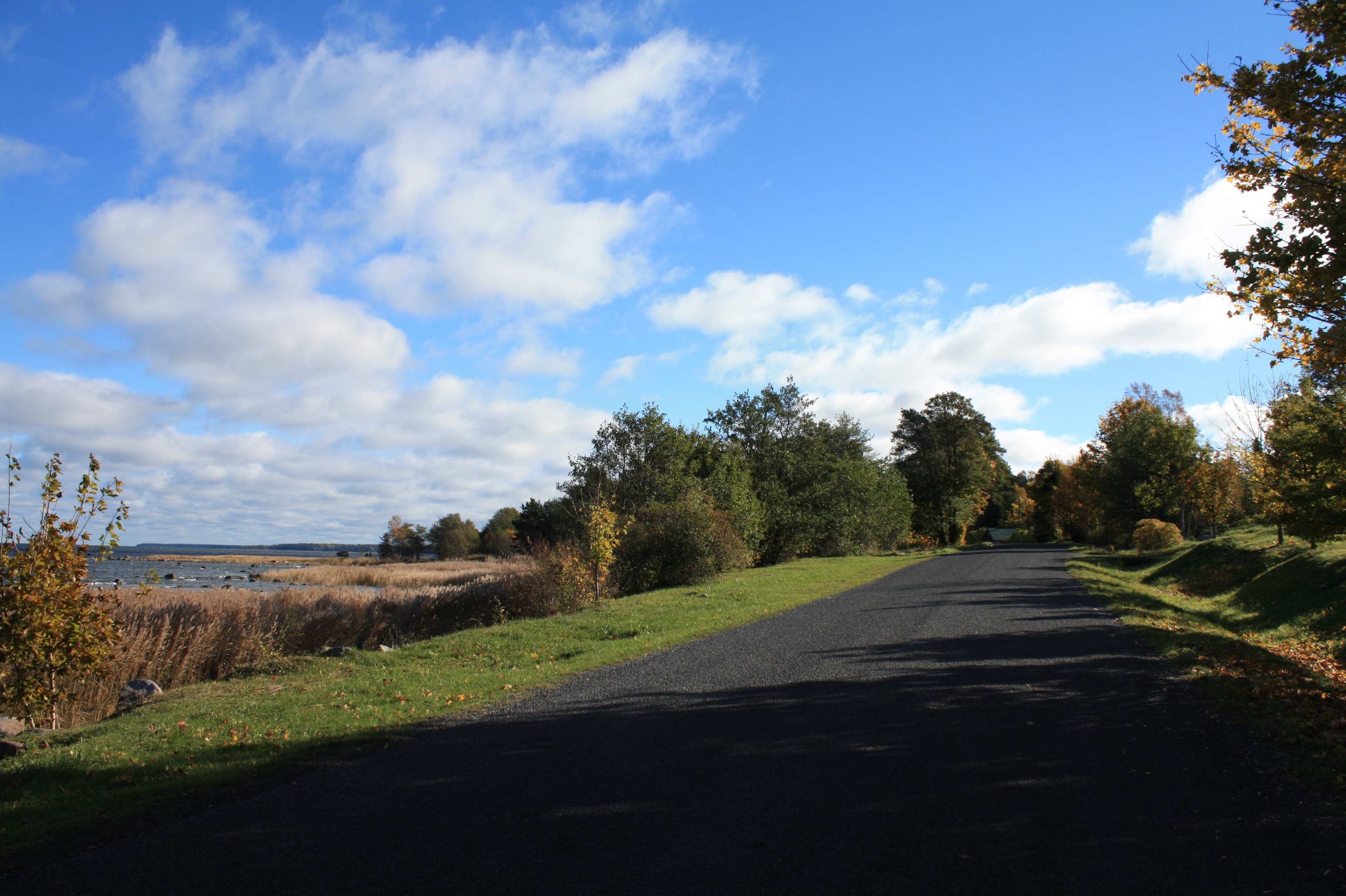 Turbuneeme